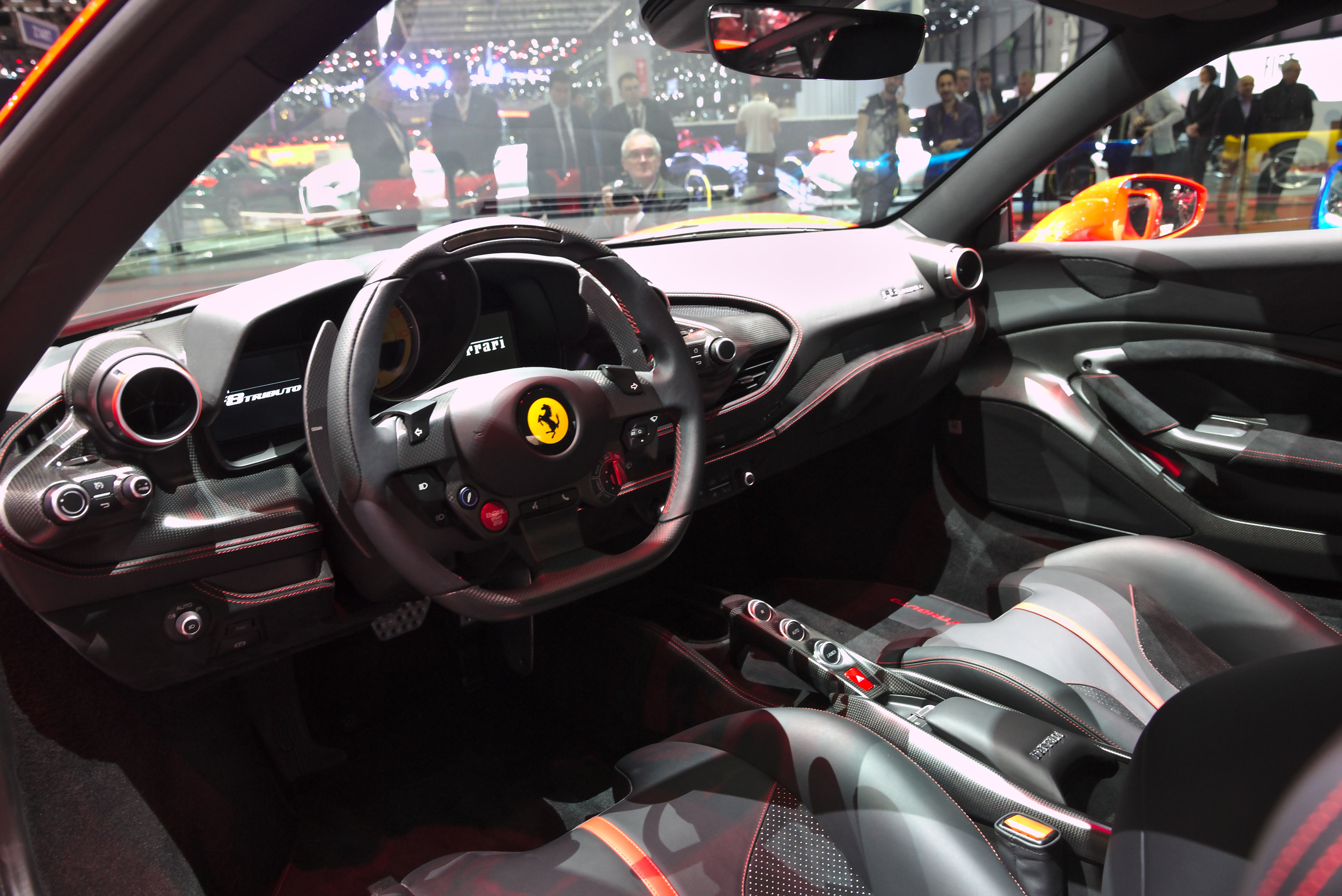 Ferrari F8 Tributo at Geneva Motorshow 2019